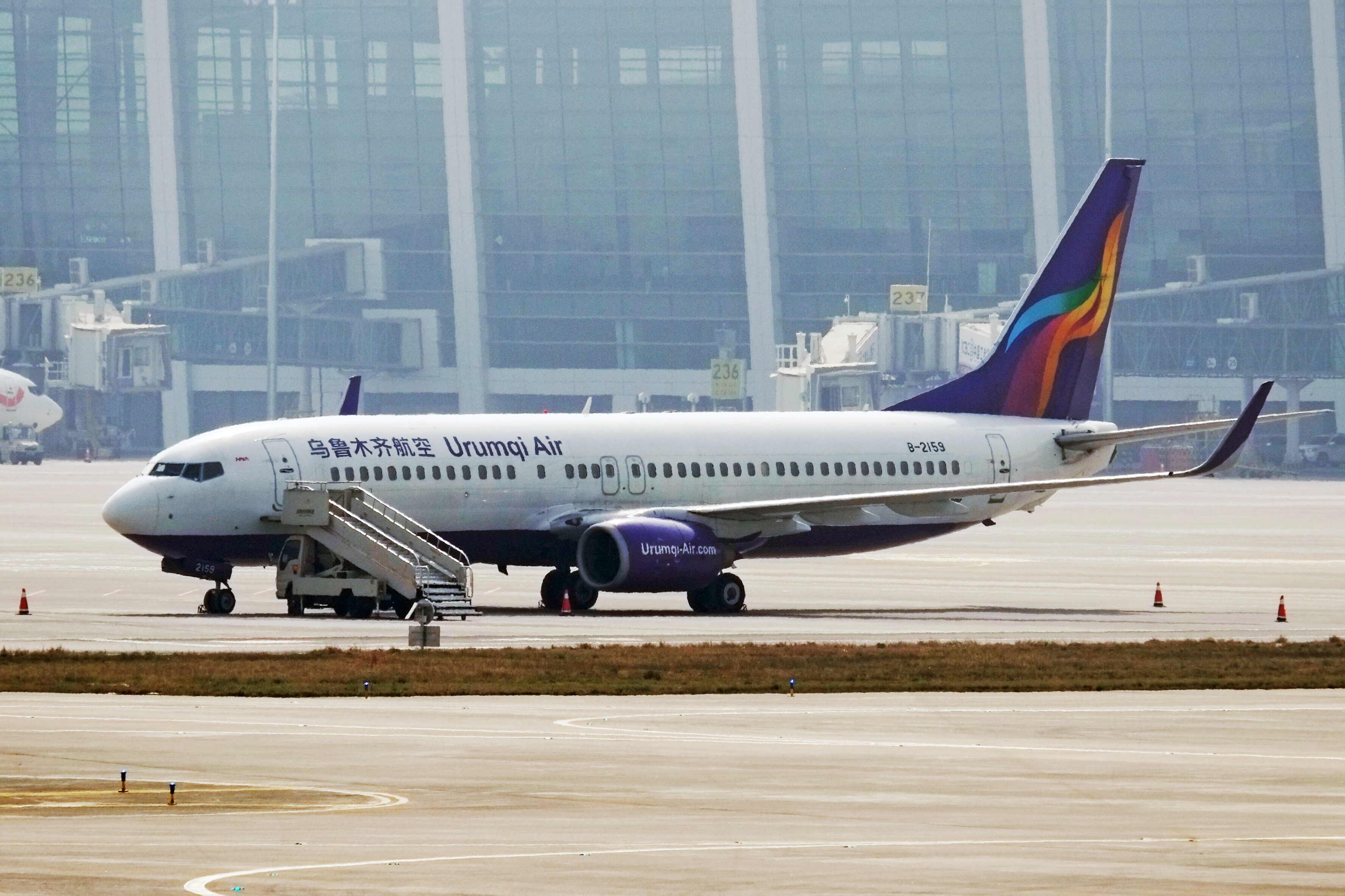 B-2159 parked at CGO